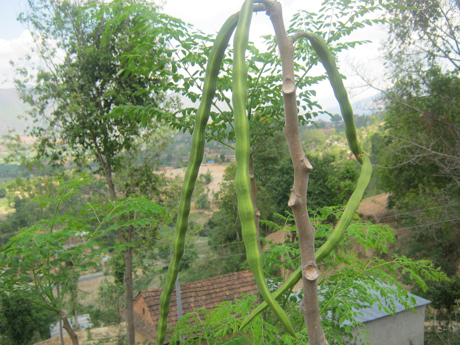 Pods of Moringa oleifera in Panchkhal, Nepal.